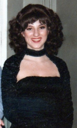 Lena Nordin (Maria) in the musical NINE, 1983, backstage at the Oscarsteatern, Stockholm